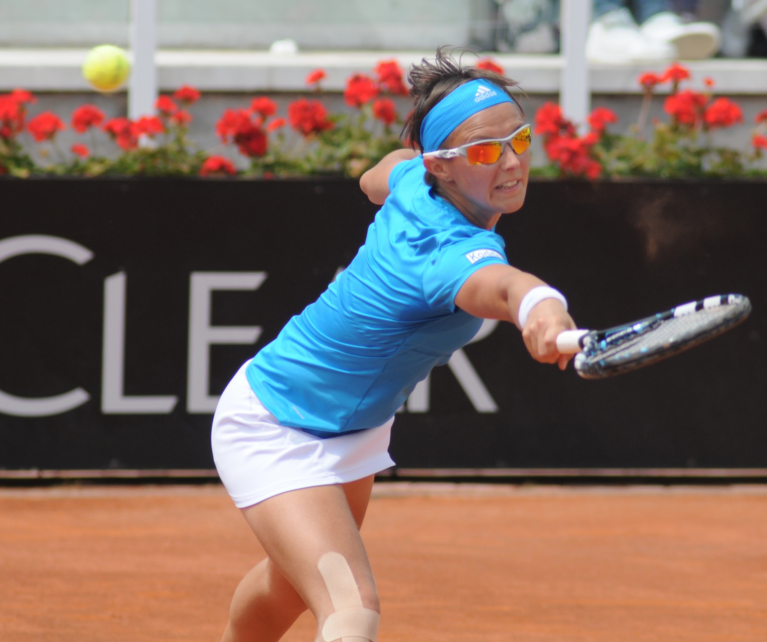 Kirsten Flipkens at the 2014 Internazionali BNL d'Italia